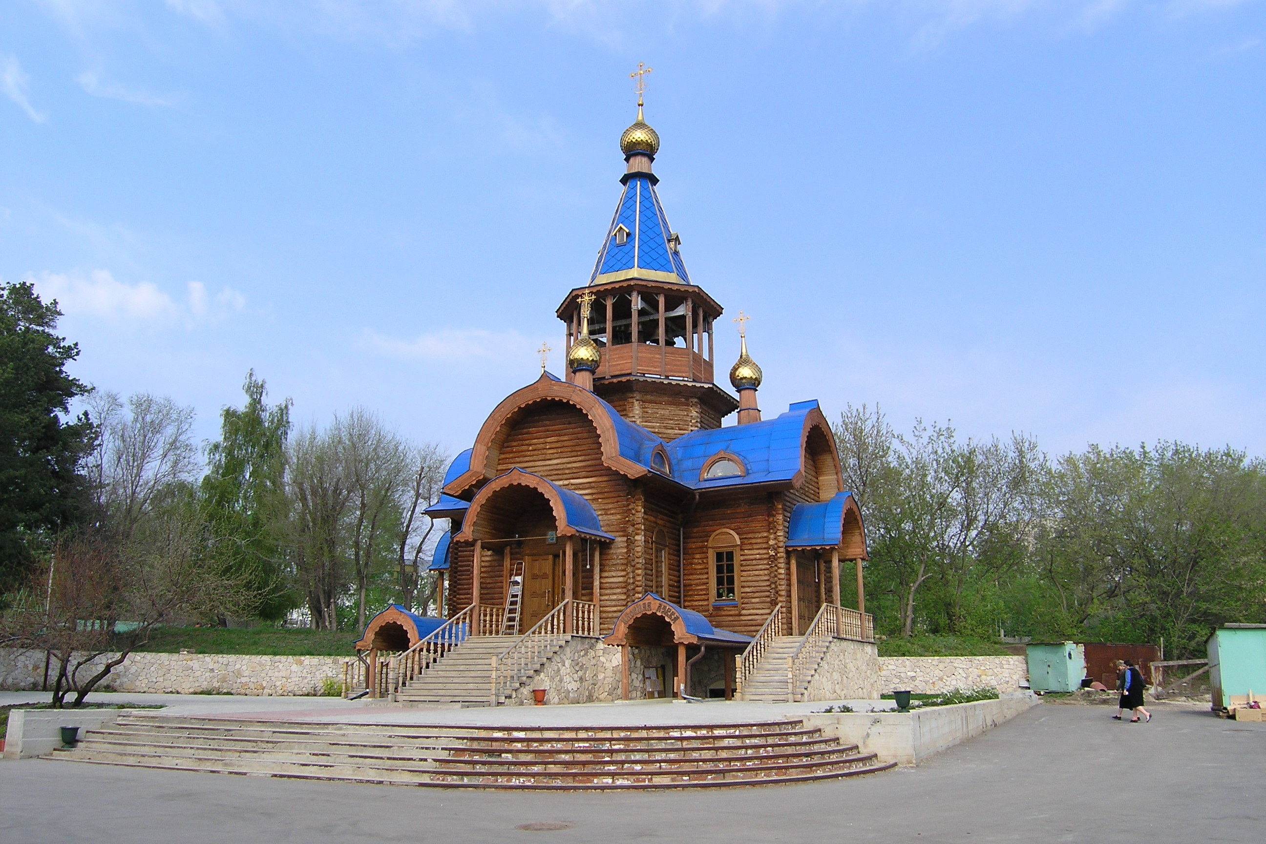 Togliatti (Samara oblast), Church Assumption of Mary